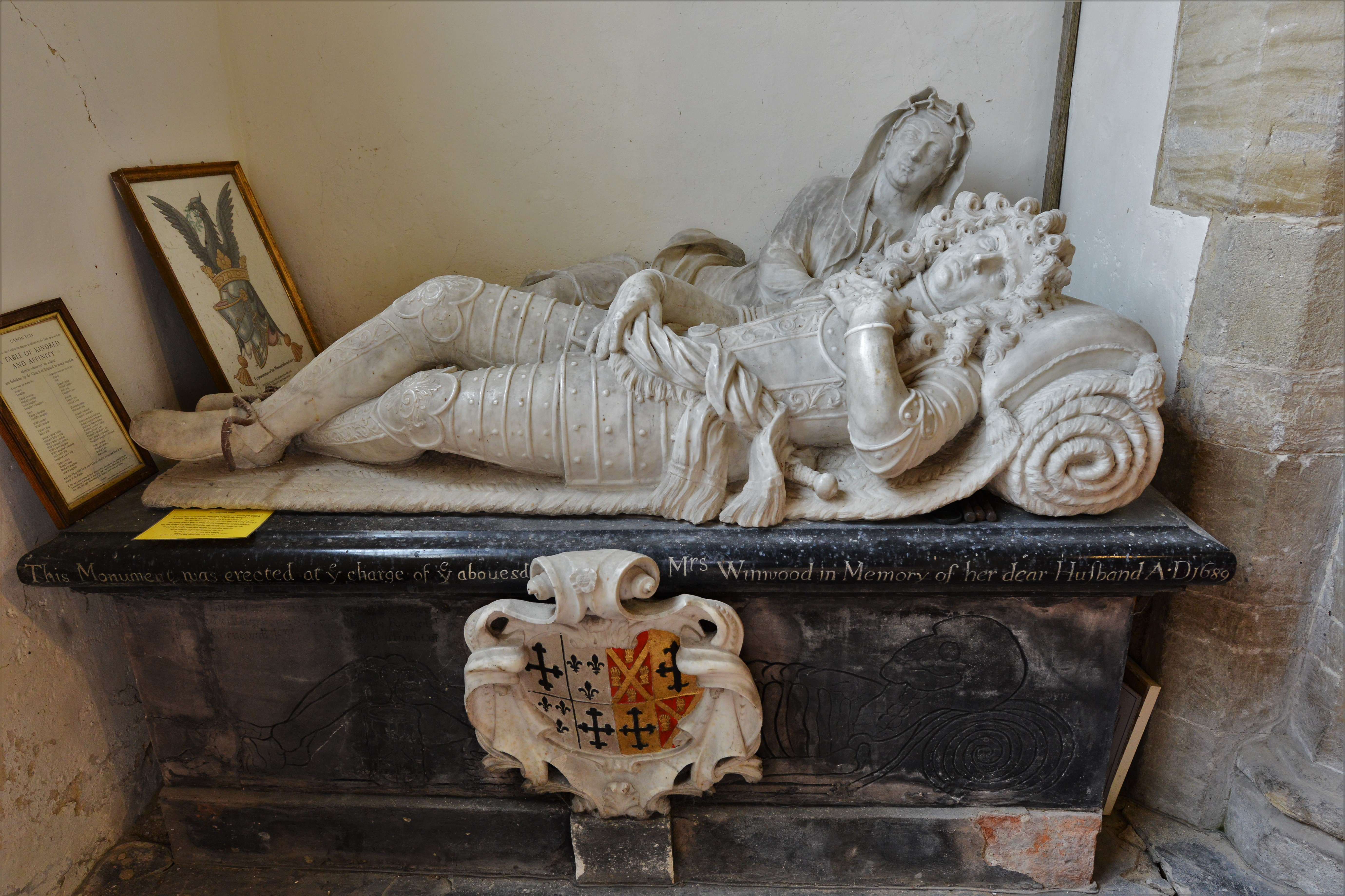 Quainton, Holy Cross and St. Mary Church: Richard Winwood (d. 1689) memorial erected by his wife 1